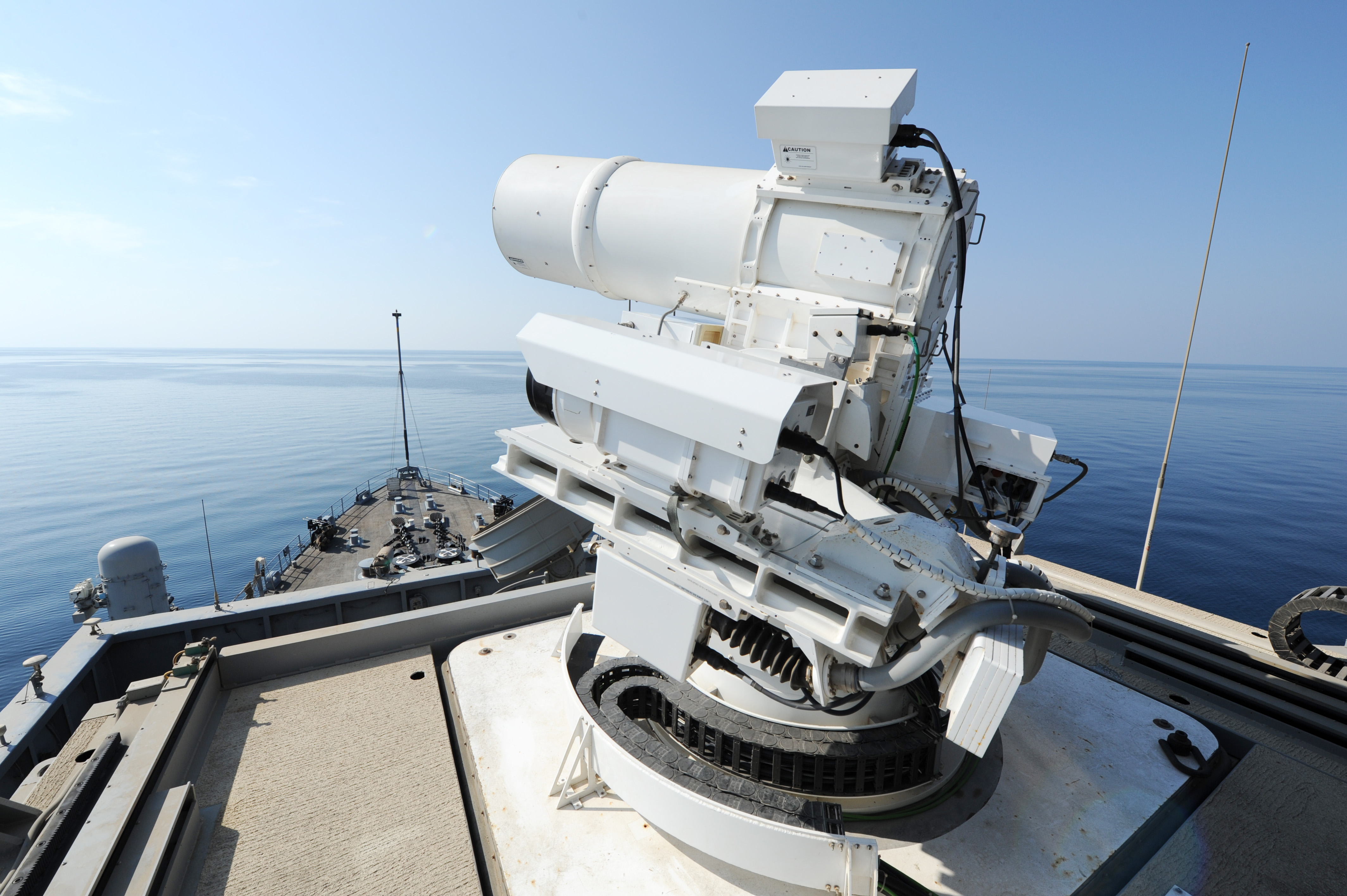 The U.S. Navy Afloat Forward Staging Base (Interim) USS Ponce (ASB(I)-15) conducts an operational demonstration of the Office of Naval Research (ONR)-sponsored Laser Weapon System (LaWS) while deployed to the Arabian Gulf.